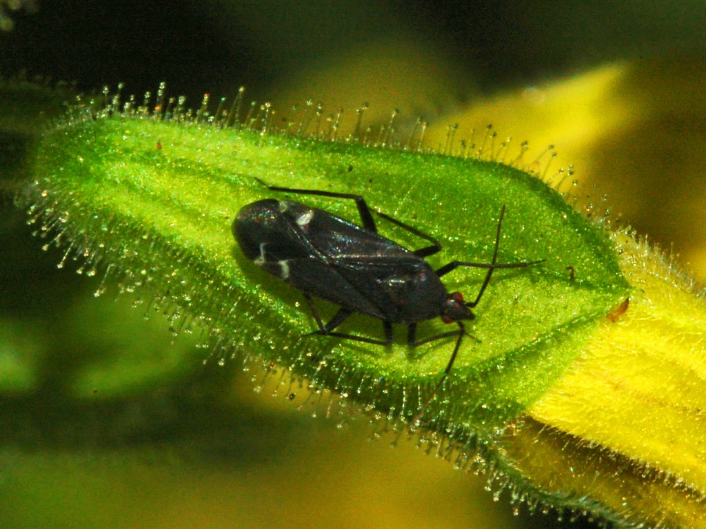 Miridae - Macrotylus quadrilineatus on Jupiter's Distaff (Salvia glutinosa - Parco dell'Antola, Genova, Italy